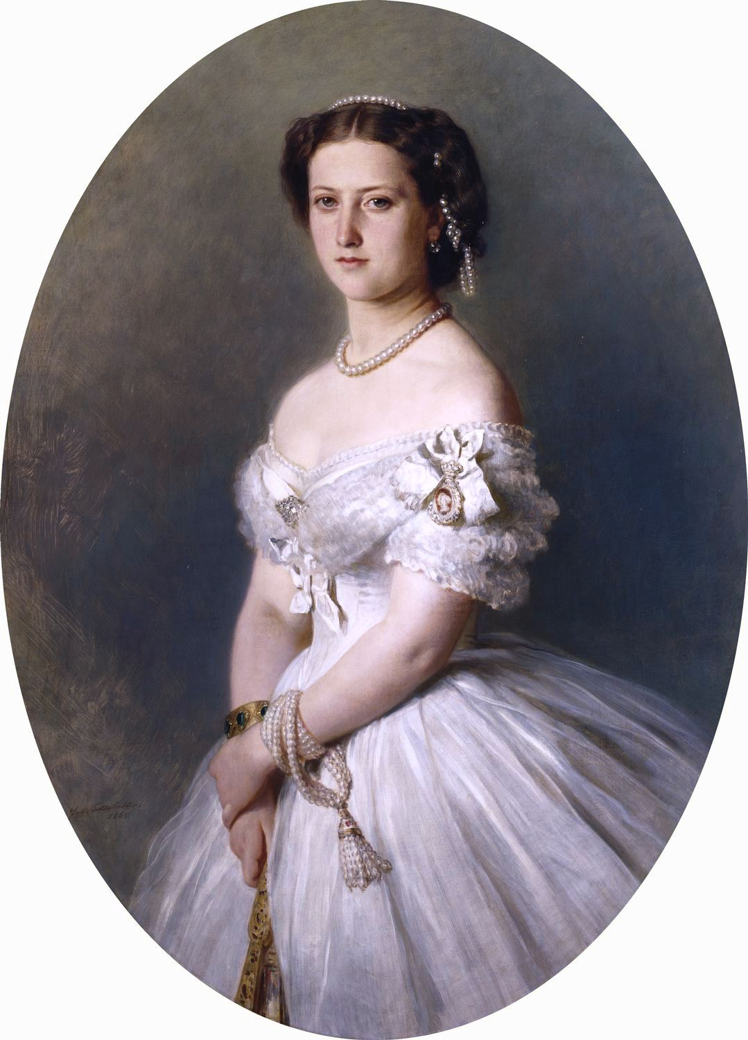 Helena, Princess of Great Britain & Ireland (1846-1923), Fürstin von Schleswig-Holstein-Sondenburg-Augustenburg